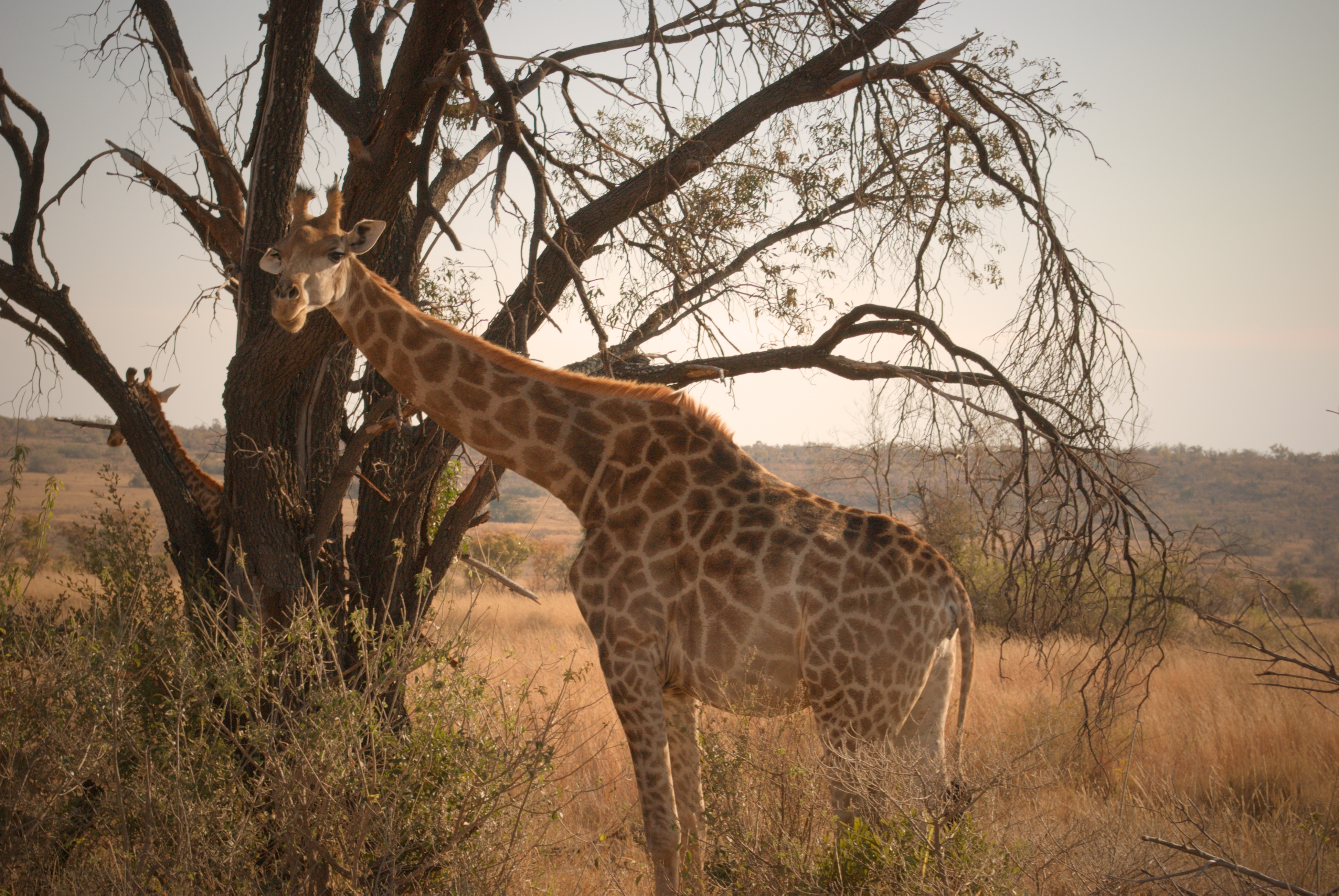 Giraffe at Welgevonden Game Reserve, South Africa